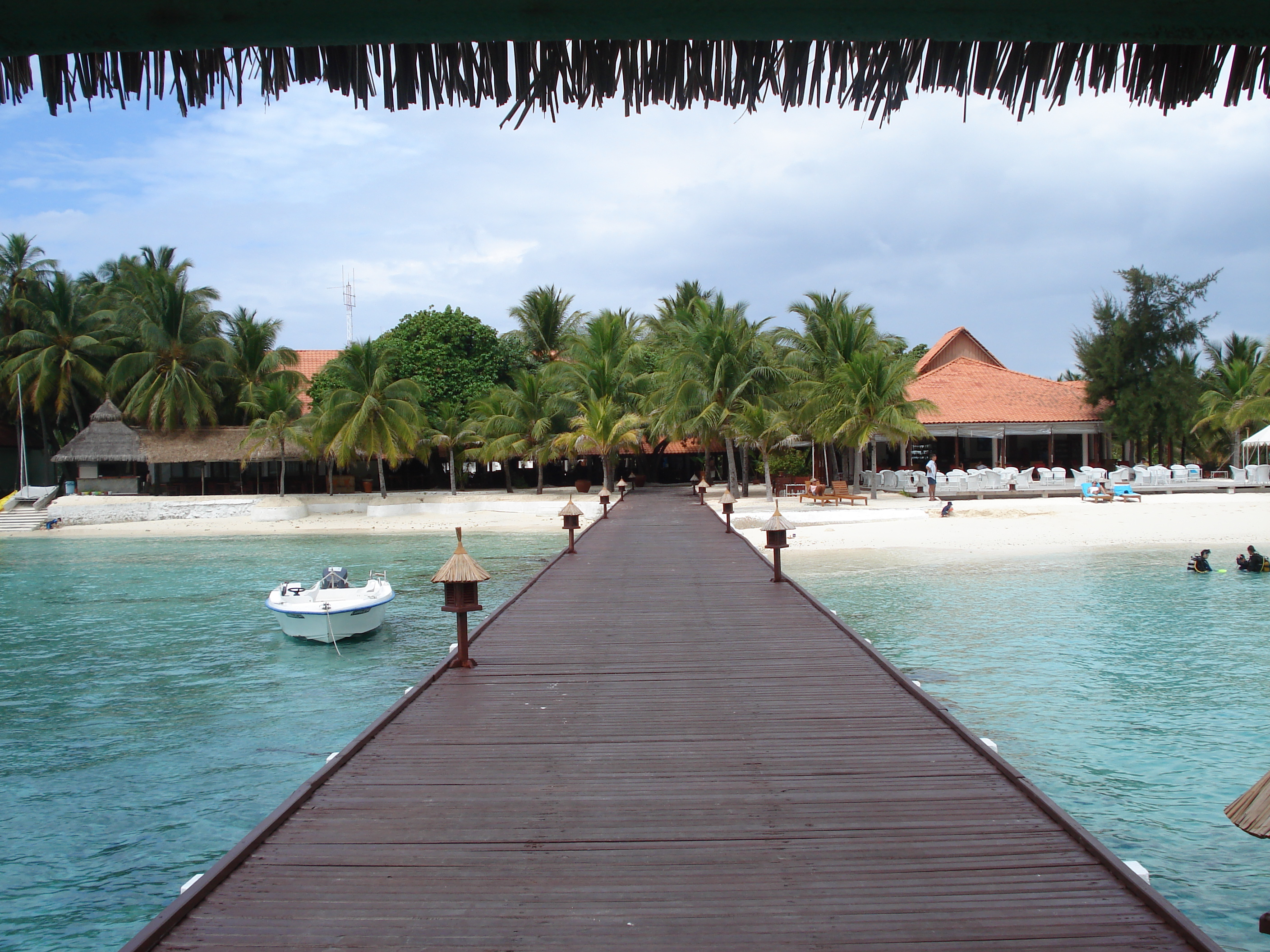 Photographs from Maldives